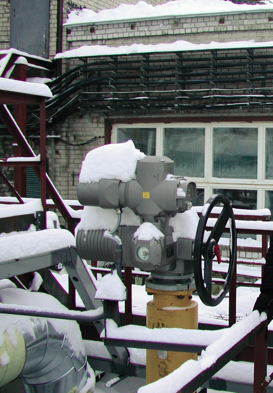 Actuator in sibira